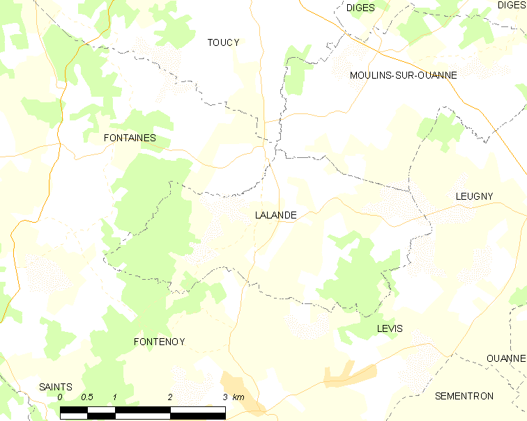 Map of French municipality Lalande